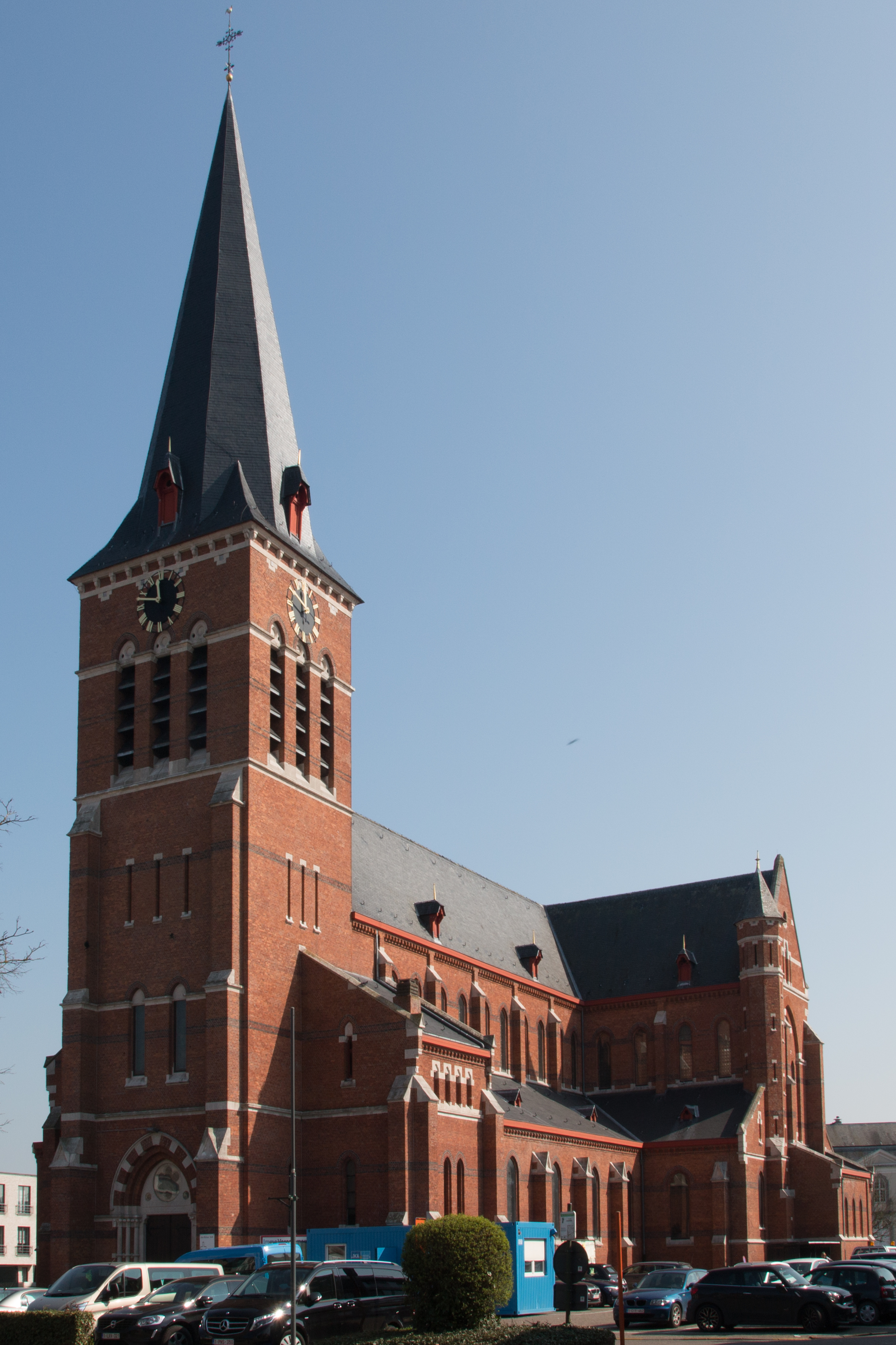 Saint Nicolas church (Putte, near Mechelen). Constructed by architect Léonard Blomme (1891-1894)